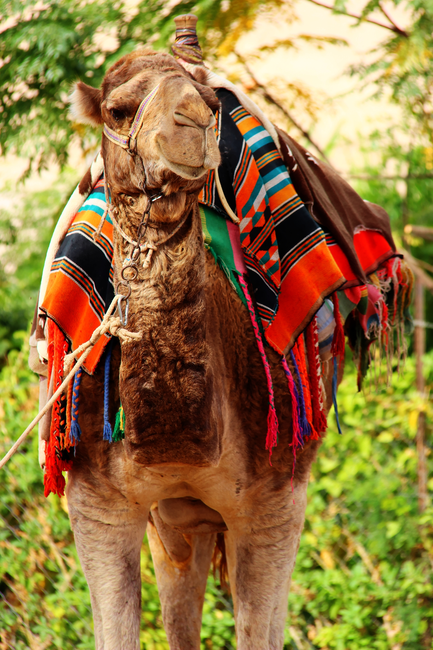 Camel in Jericho, Palestine.